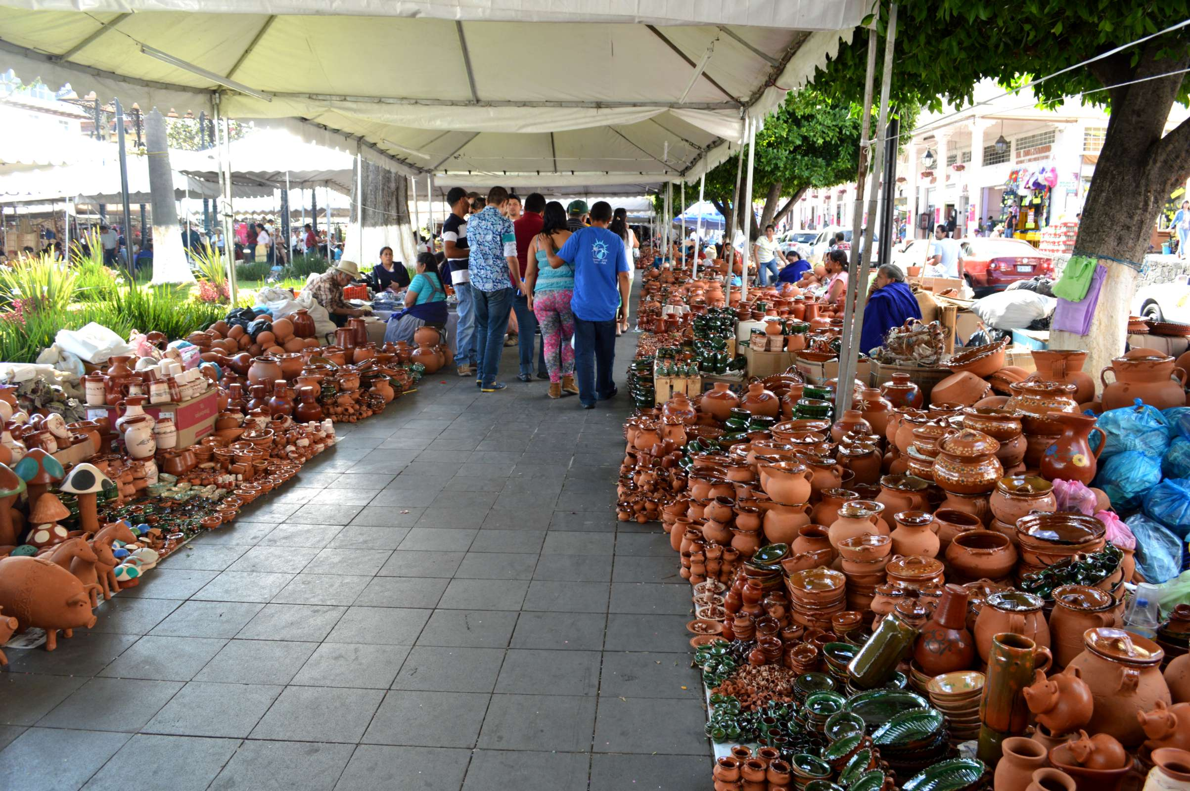 Pottery at the Tianguis de Domingo de Ramos in Uruapan, Michoacan, Mexico